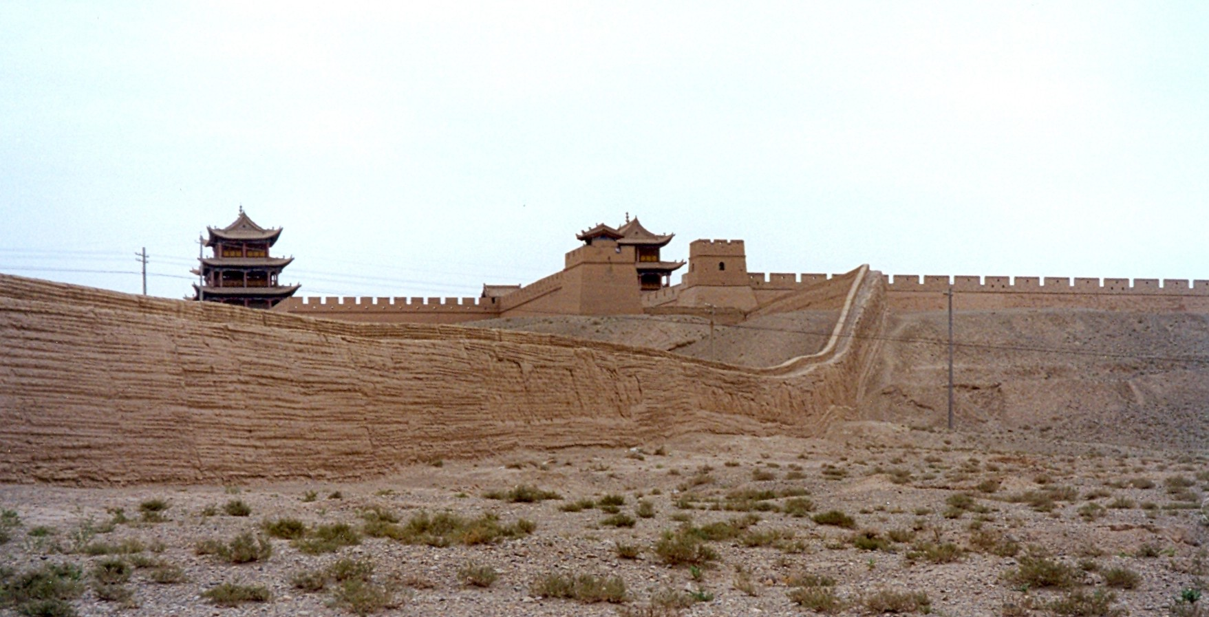 A remote western section of the Great Wall, Jiayuguan, Gansu, China.